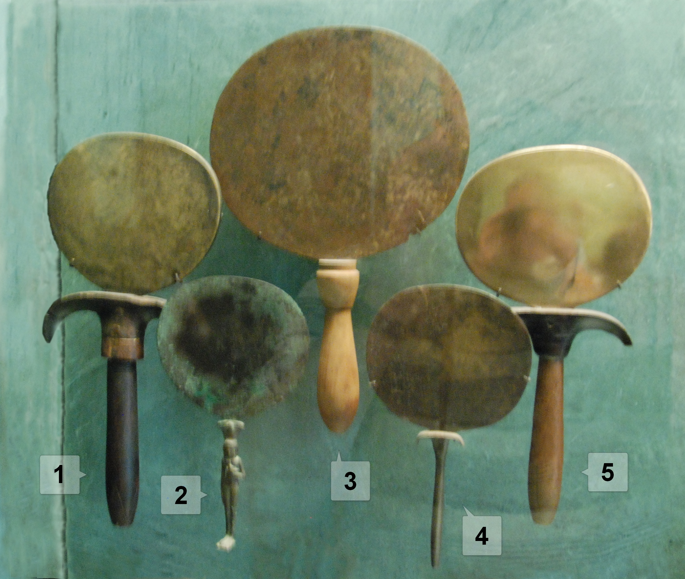 1,5 - Mirror in form of papyrus. 2 - Mirror in the form of a young girl. 3 - Mirror. 4 - Round mirror in form of papyrus.